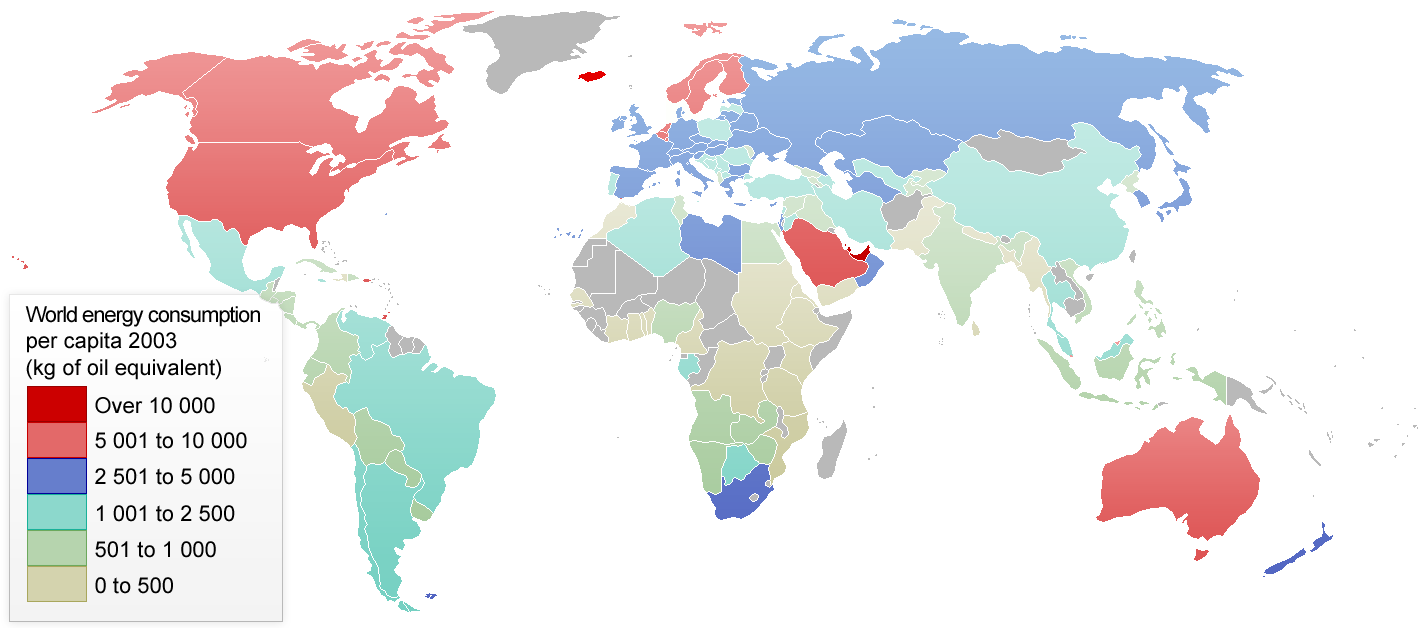 A map depicting world energy consumption per capita based on 2003 data from the IEA.